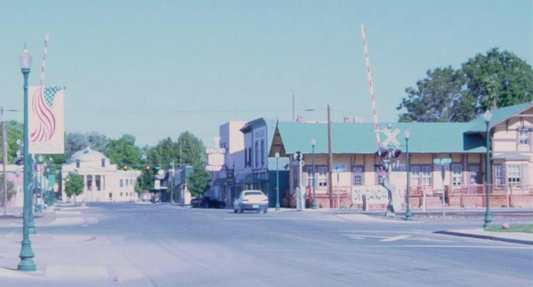 Looking northwest on Main Street (State Route 398) from Broadway in Lovelock, Nevada.